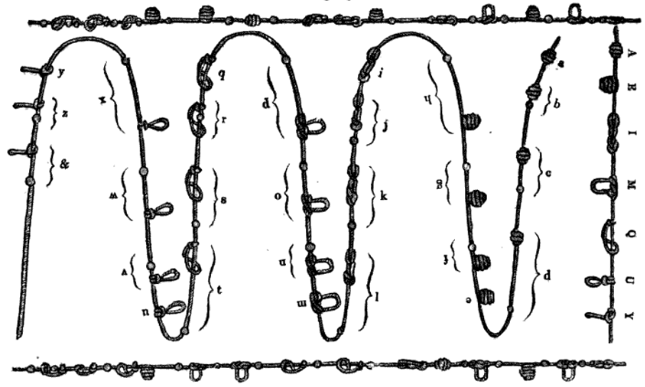 Image of the string alphabet for the use of the blind. Published in Penny Cyclopaedia vol.4(1835), Scanned from Google Books